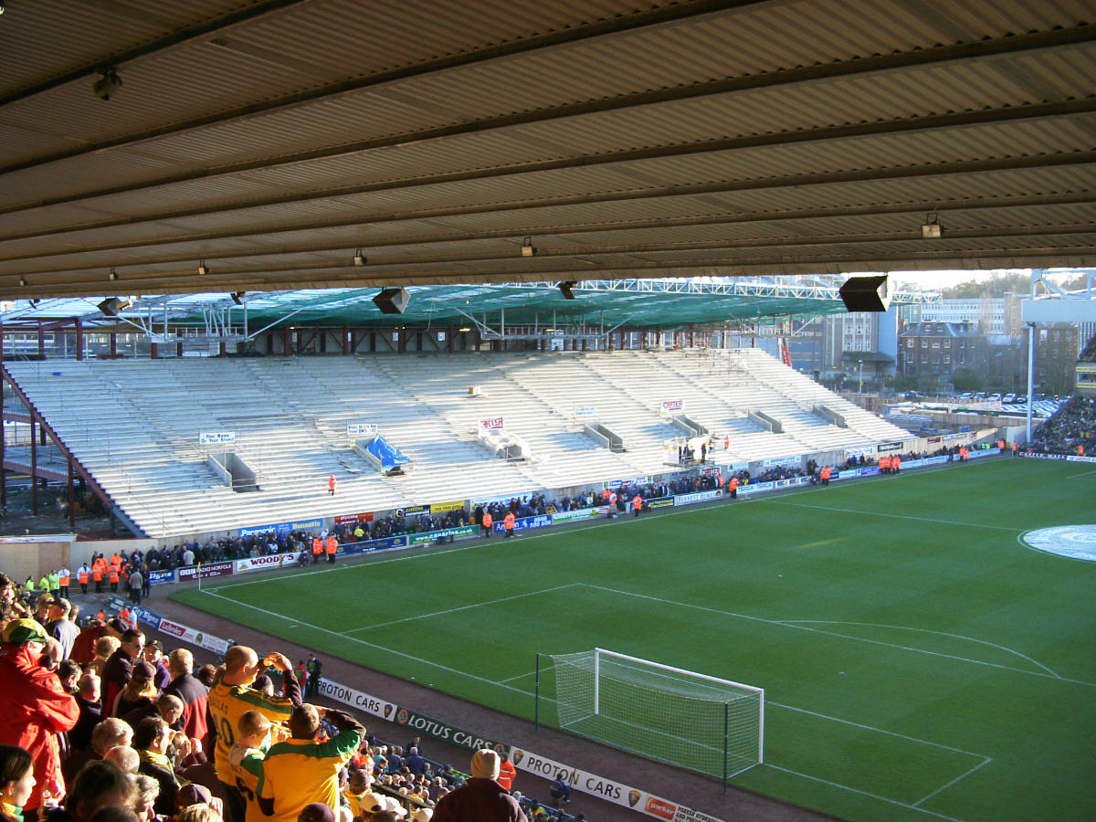 Carrow Road - Jarrold Stand during construction